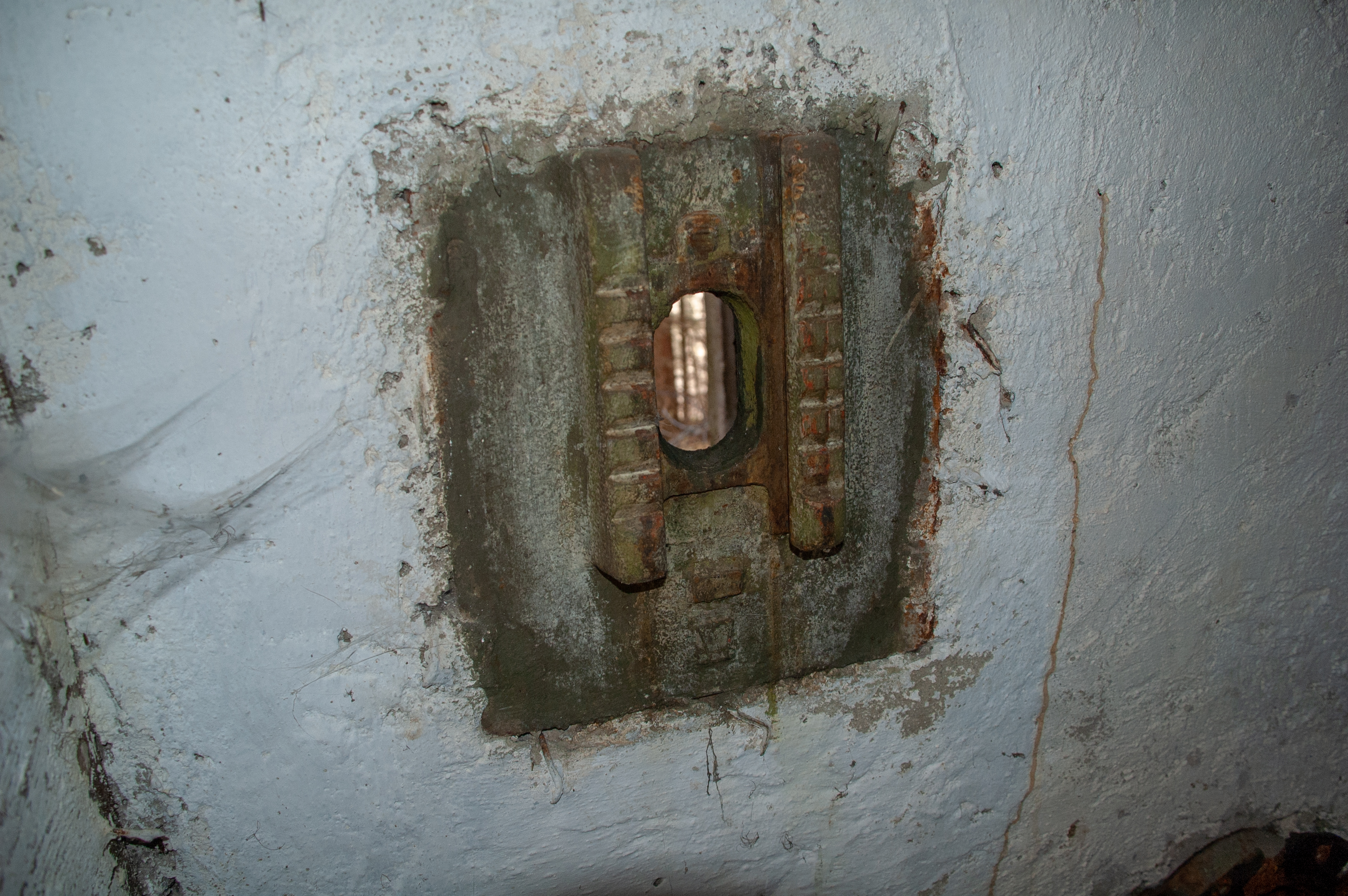 This image was created as a part of Editaton Prachatice (Czech).